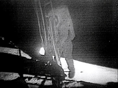 Still frame from video transmission of Buzz Aldrin stepping out onto the Moon.